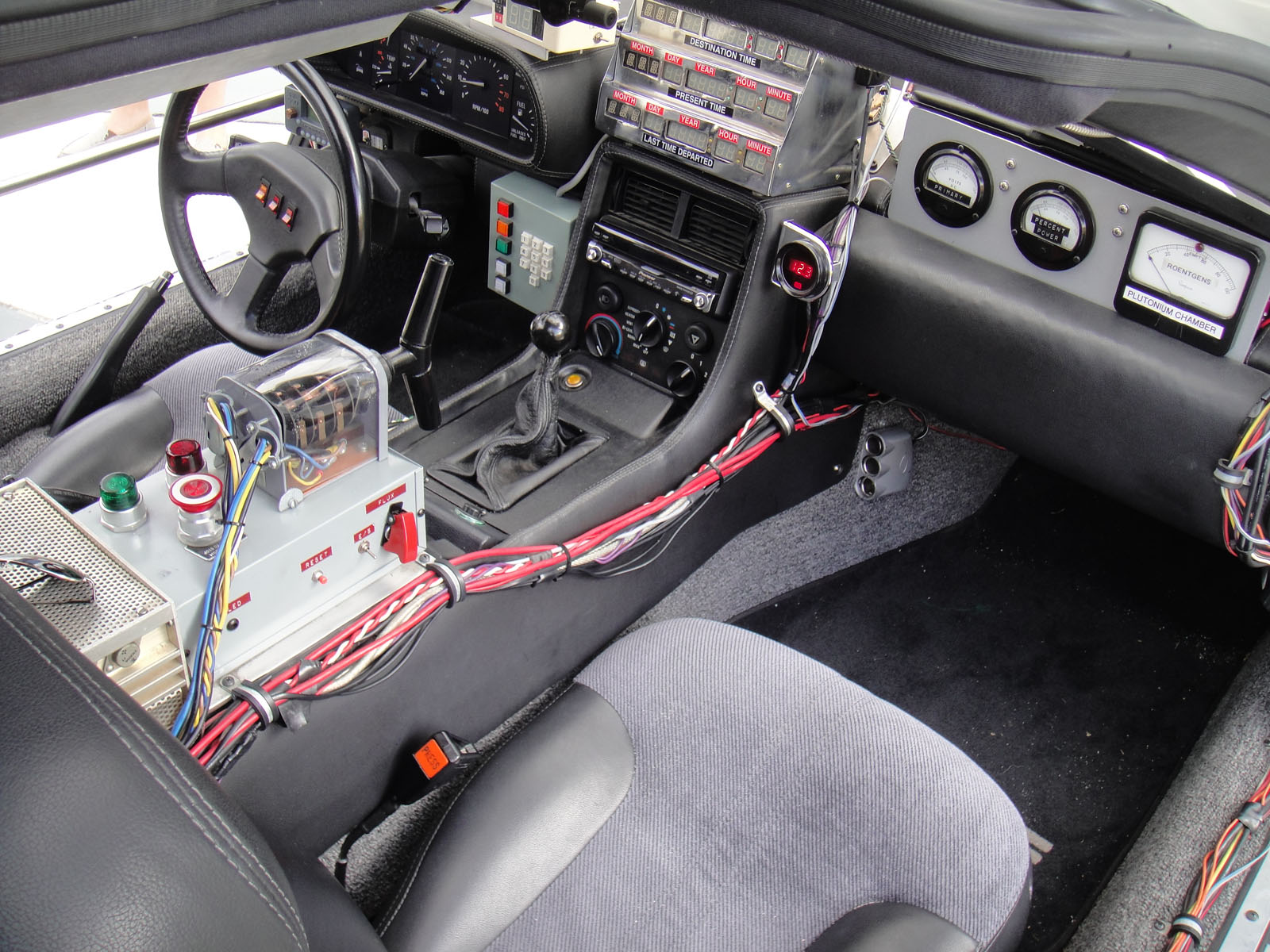 Back to the Future II Delorean interior